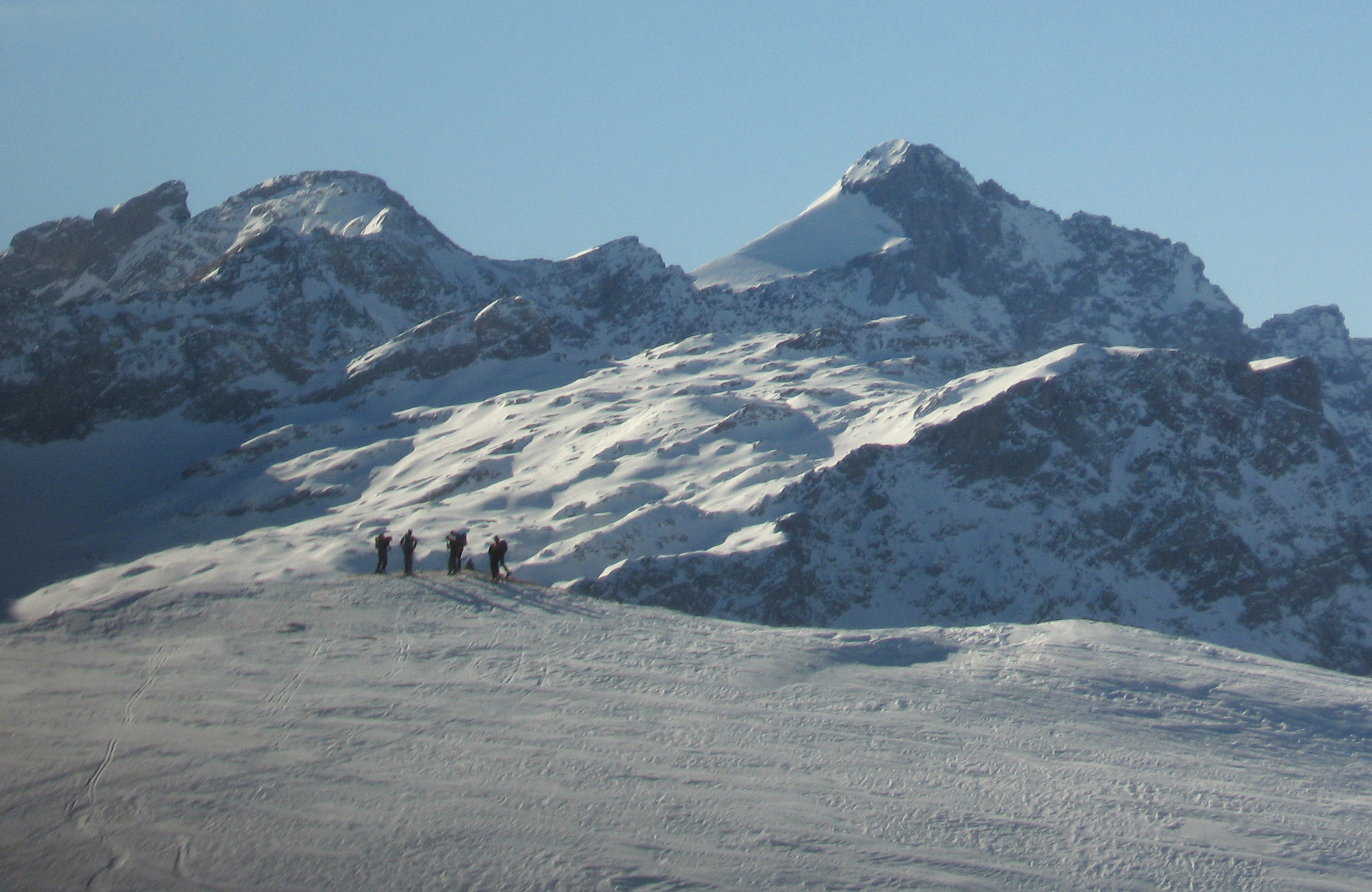 on western top of Glatten (Swiss alps). On the right the ridge of Gross Ruchen, a great ski touring summit